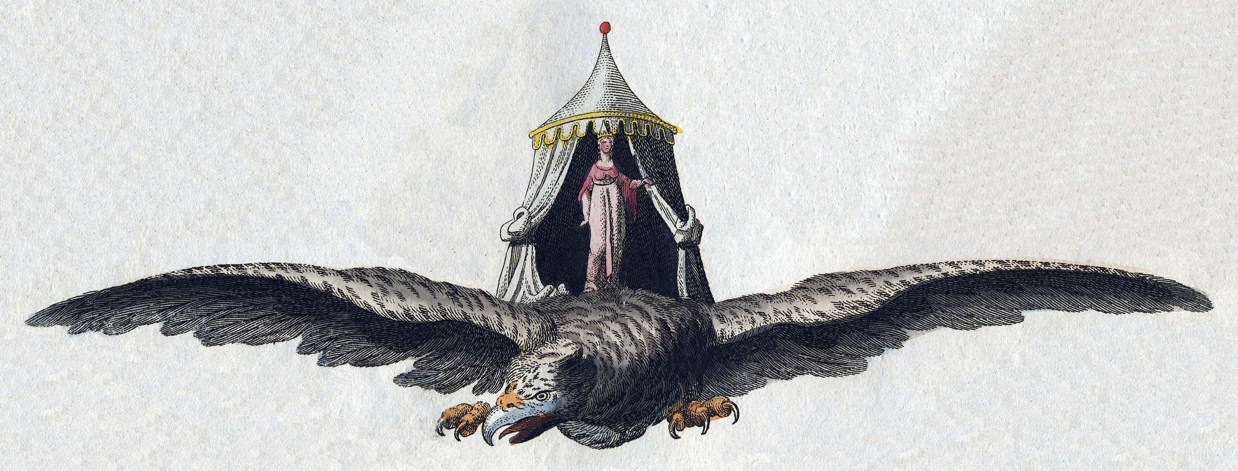 The enormous legendary bird of prey, Roc